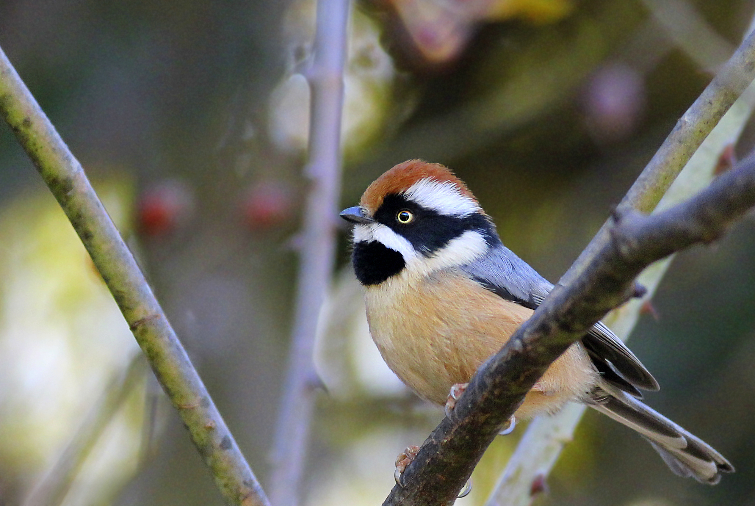 This bird surely fits into that 'Beautiful' category.